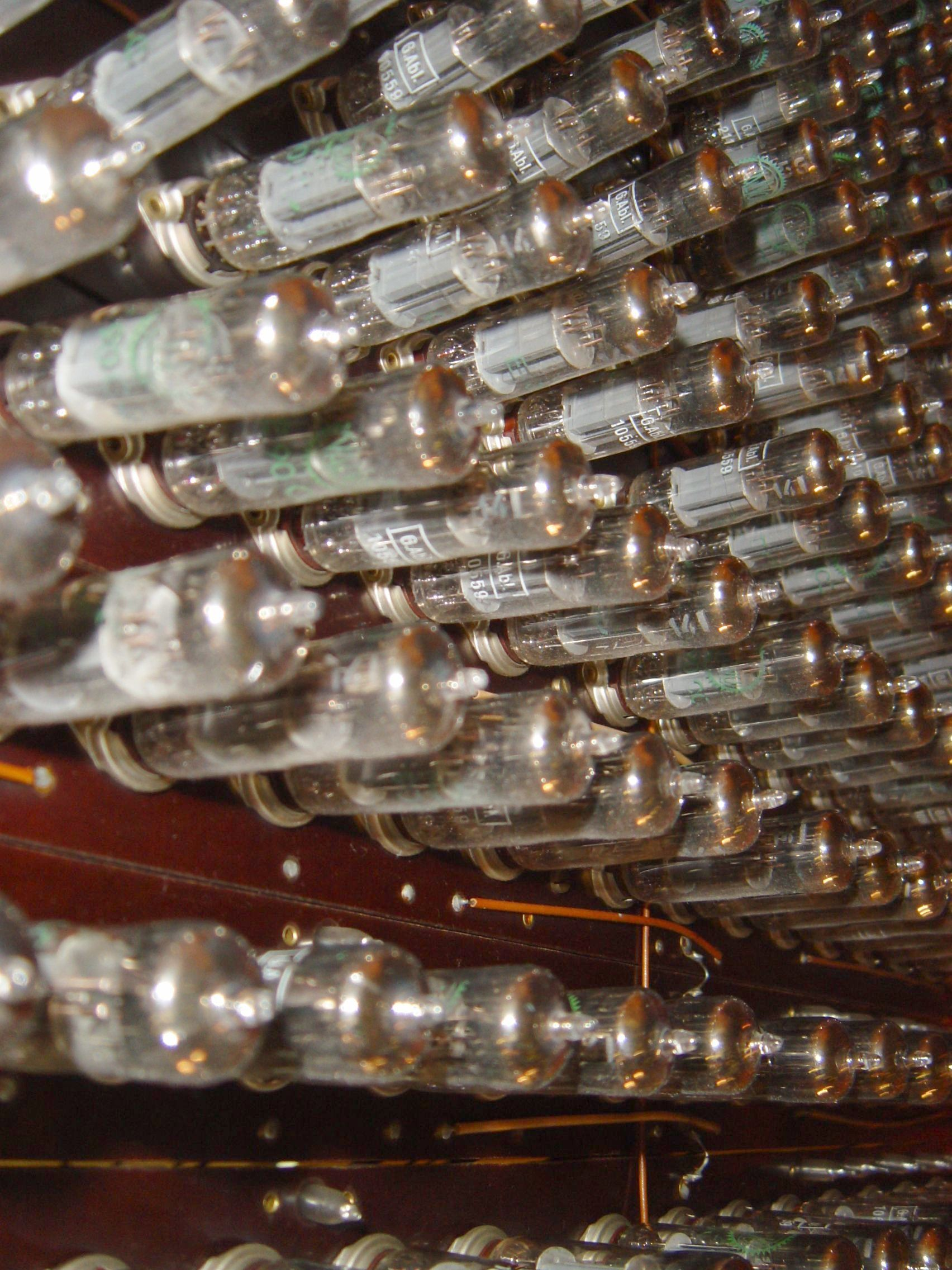 Author: Peter Dauscher Vacuum tubes in an historic computer